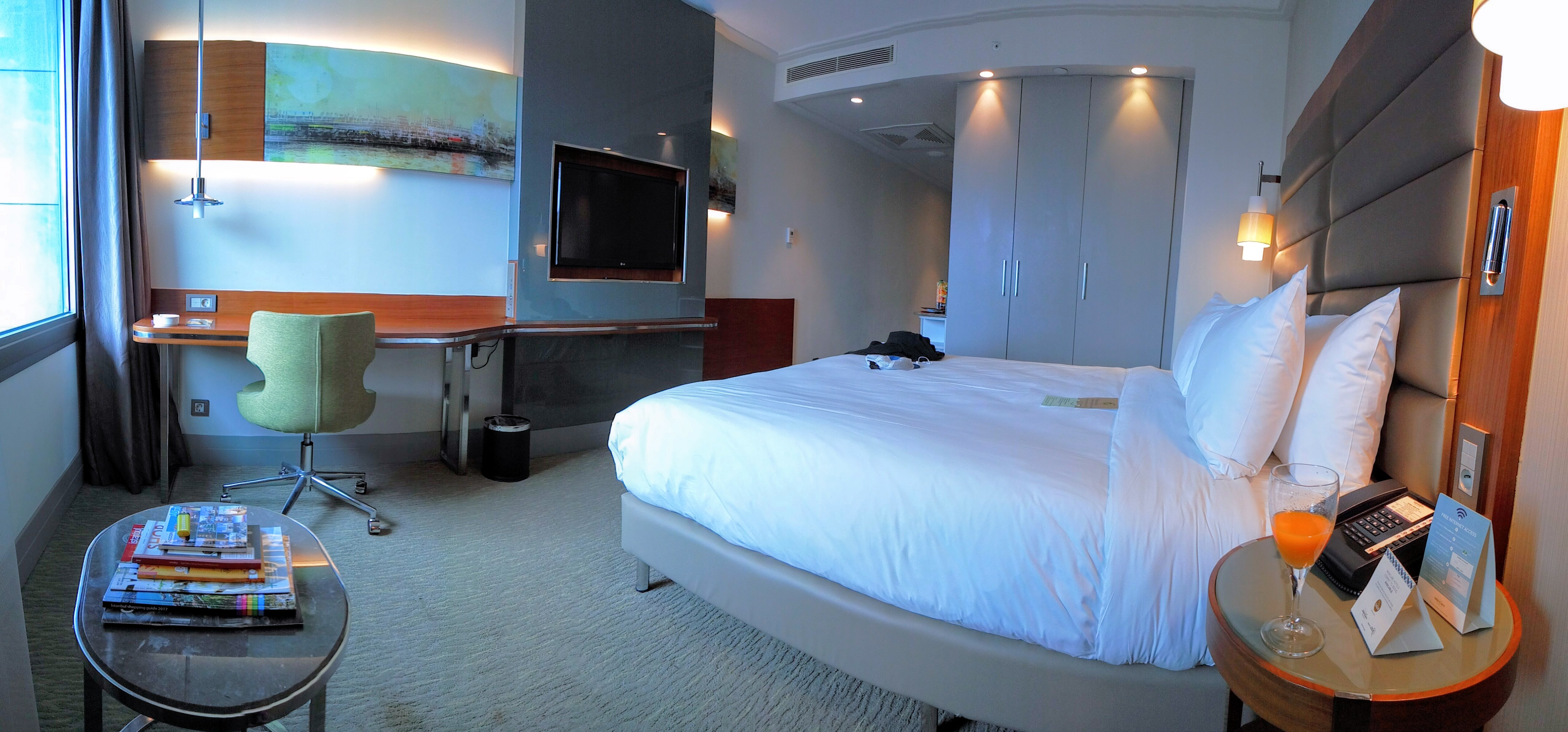 A Deluxe Room in the Mercure Hotel Taksim, showcasing the bed, window, desk and television